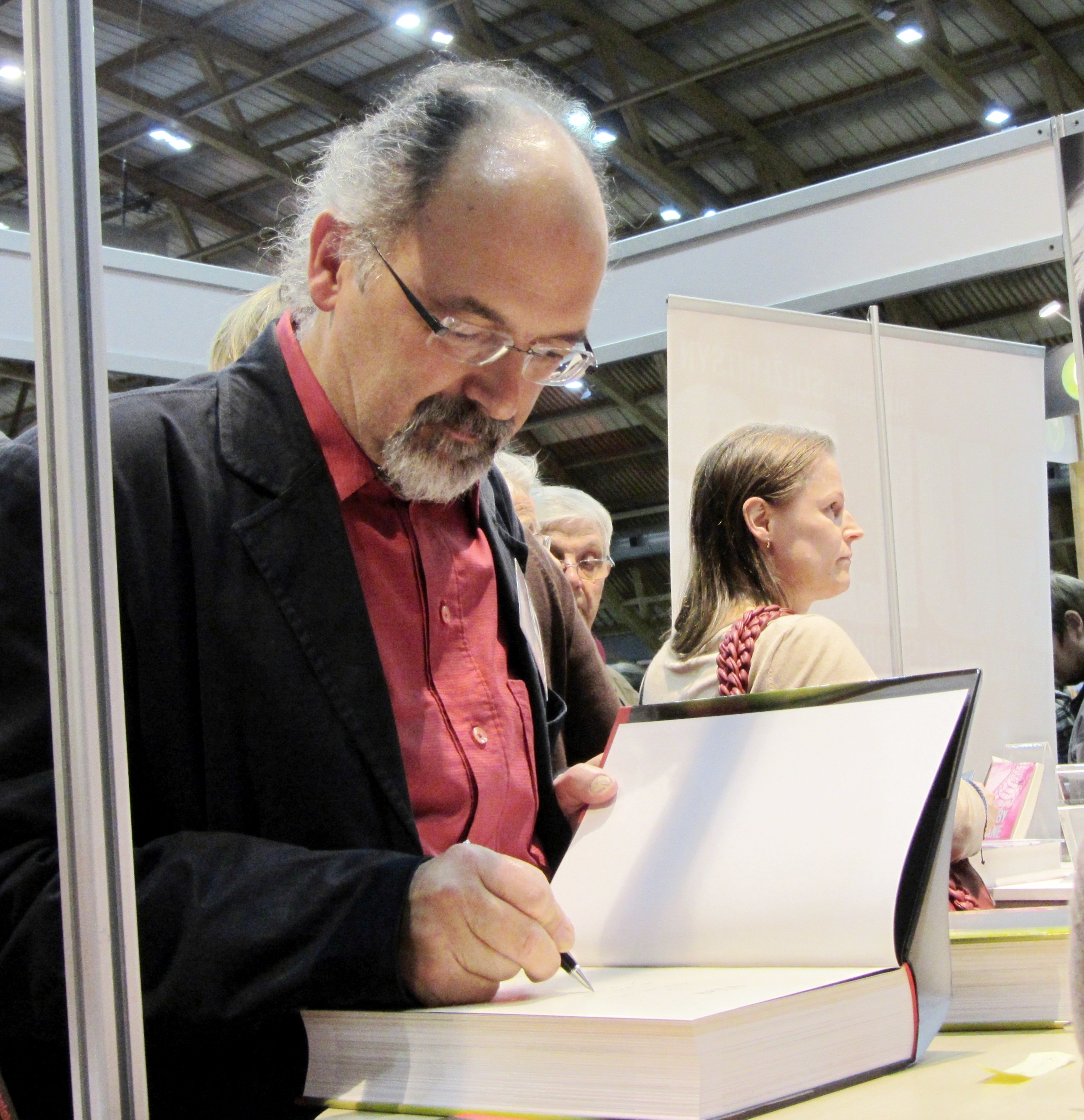 German wine expert André Dominé signing his books at Tampere Book Fair 2012.